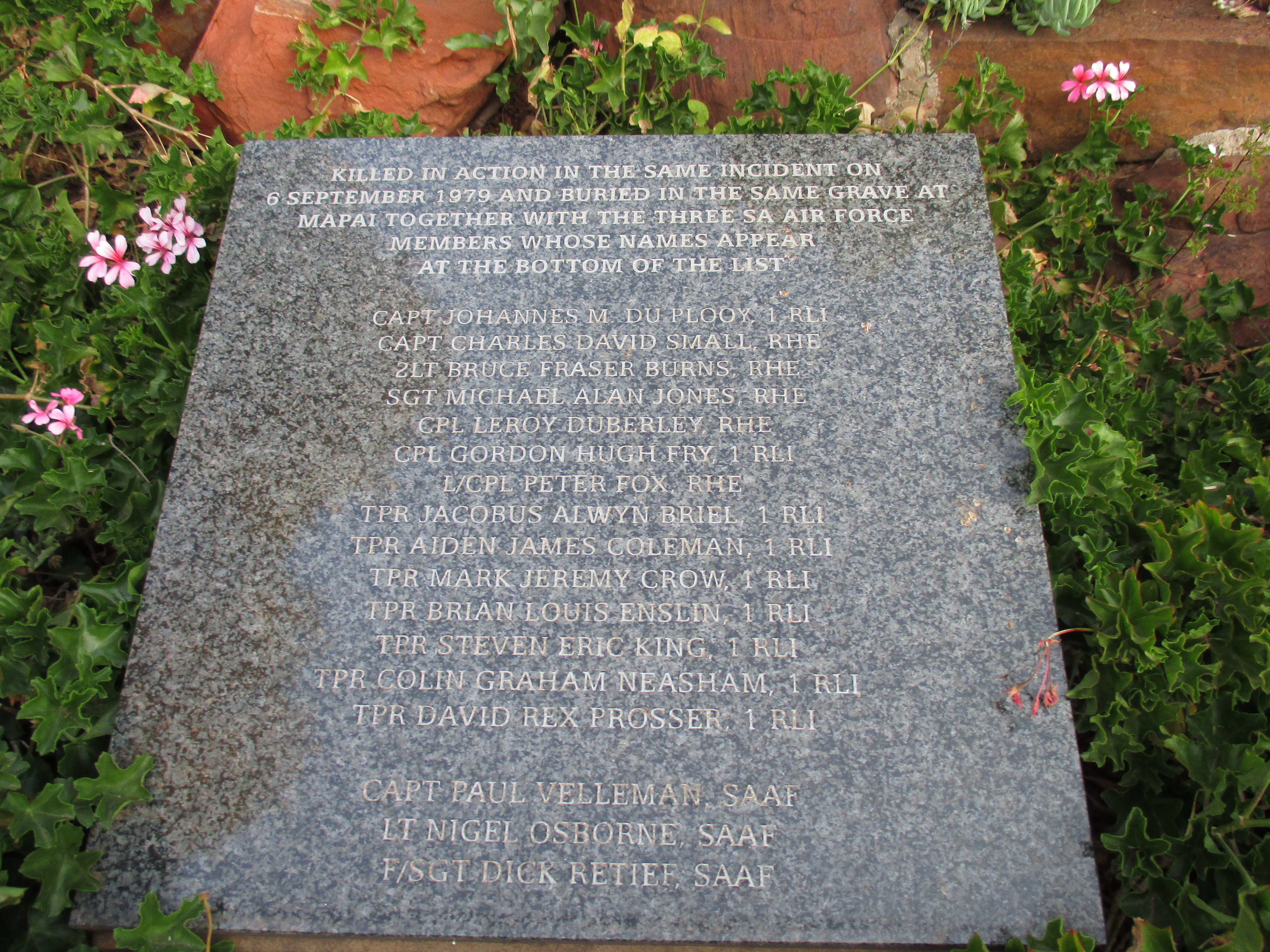 Description: Plaque honouring fourteen Rhodesian and three South African servicemen killed during Operation Uric, Voortrekker Monument, Pretoria. 2014. Remark: "Operation Uric" was a raid staged by members of the Rhodesian Security Forces with South African Air Force support in Mozambique, 1979. Killed in action in the same incident on 6 September 1979 and buried in the same grave at Mapai together with the three SA Air Force members whose names appear at the bottom of the list - Capt. Johannes M. du Plooy, 1 RLI Capt. Charles David Small, RHE 2LT Bruce Fraser Burns, RHE Sgt Michael Alan Jones, RHE Cpl Leroy Duberley, RHE Cpl Gordon Hugh Fry, 1 RLI L/Cpl Peter Fox, RHE Tpr Jacobus Alwyn Briel, 1 RLI Tpr Aiden James Coleman, 1 RLI Tpr Mark Jeremy Crow, 1 RLI Tpr Brian Louis Enslin, 1 RLI Tpr Steven Eric King, 1 RLI Tpr Colin Graham Neasham, 1 RLI Tpr David Rex Prosser, 1 RLI - Capt Paul Velleman, SAAF Lt Nigel Osborne, SAAF F/Sgt Dick Retief, SAAF